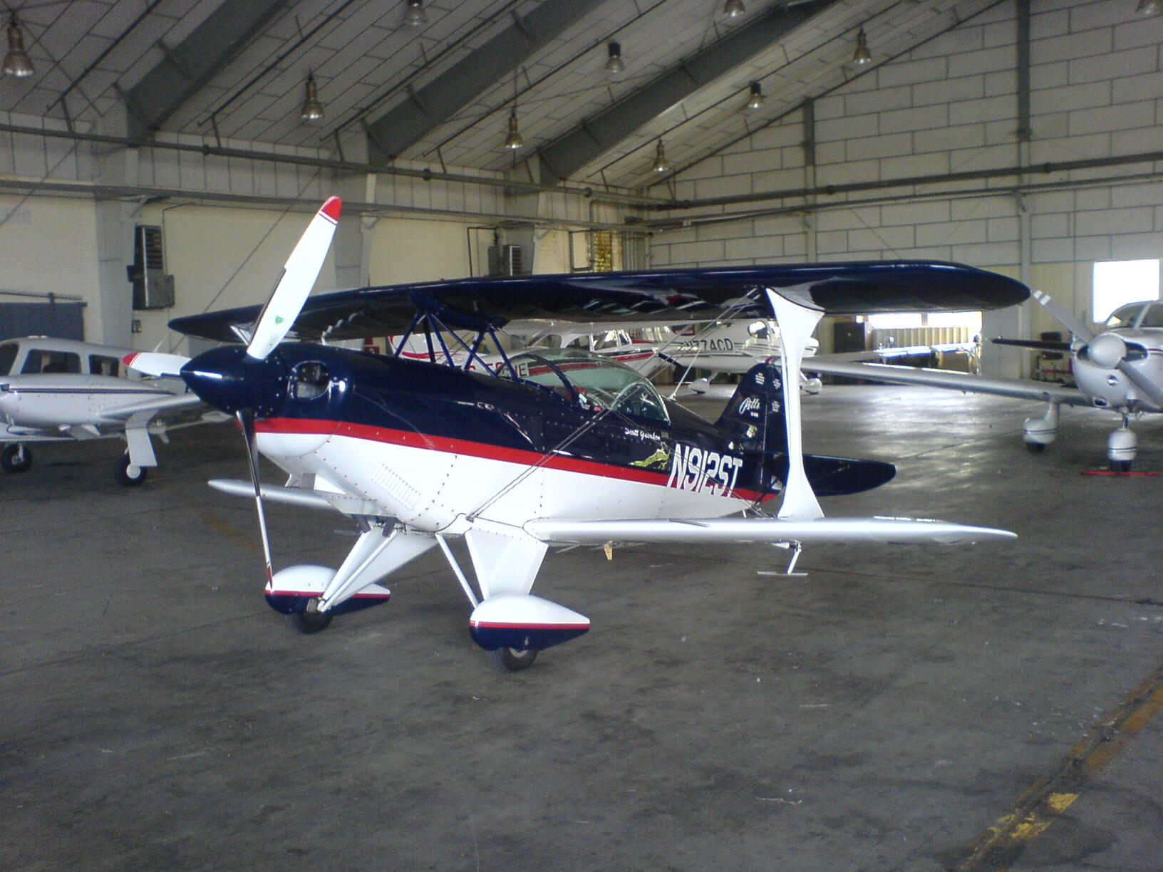 Pitts S2 (N912ST) in MAINZ-FINTHEN (EDFZ). Camera: Sony Ericson W810i.